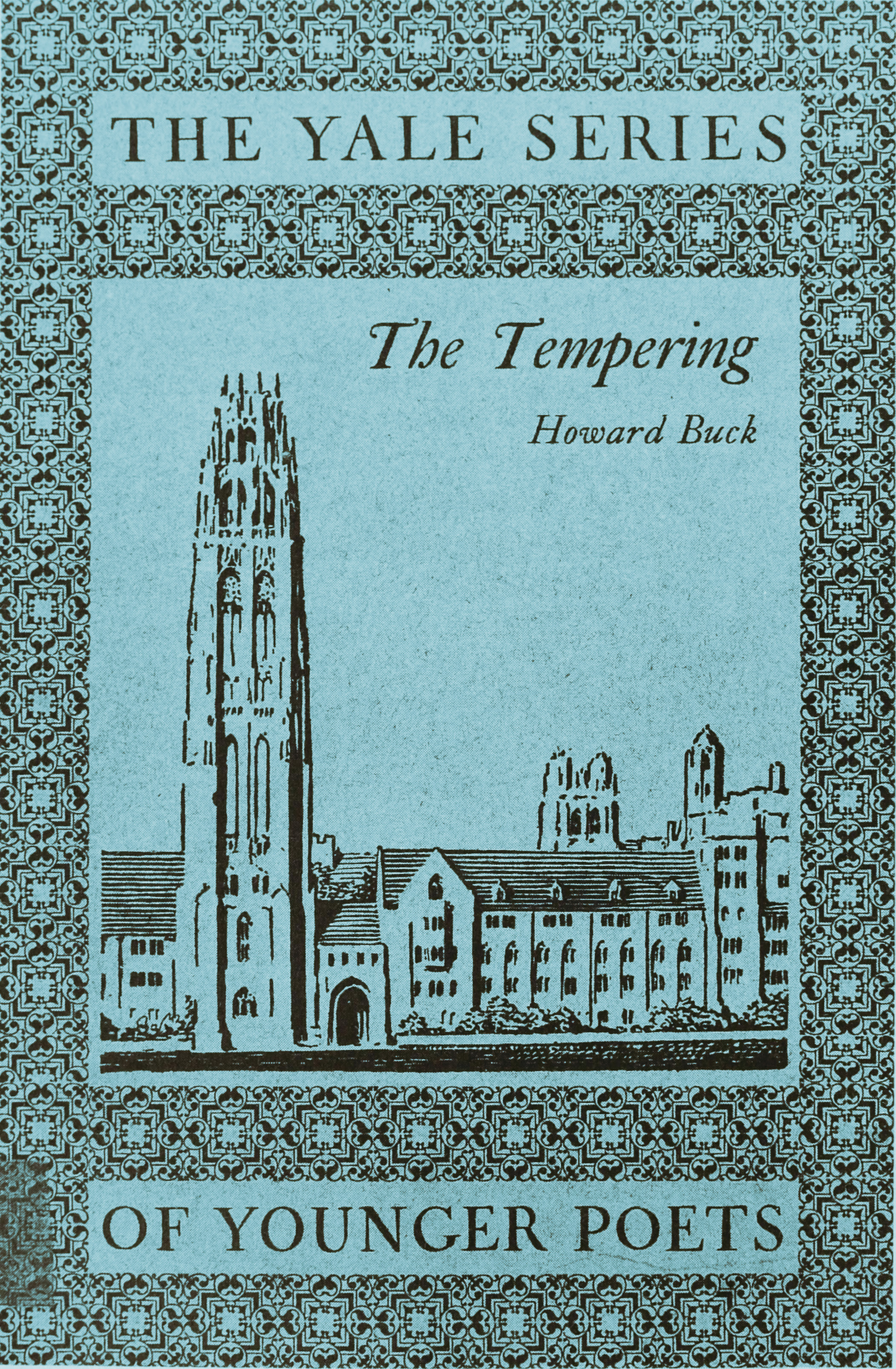 Cover of The Tempering by Howard Buck. The poetry collection is notable as volume 1 of the Yale Series of Younger Poets, after Buck won the inaugural 1918 competition alongside John C. Farrar.